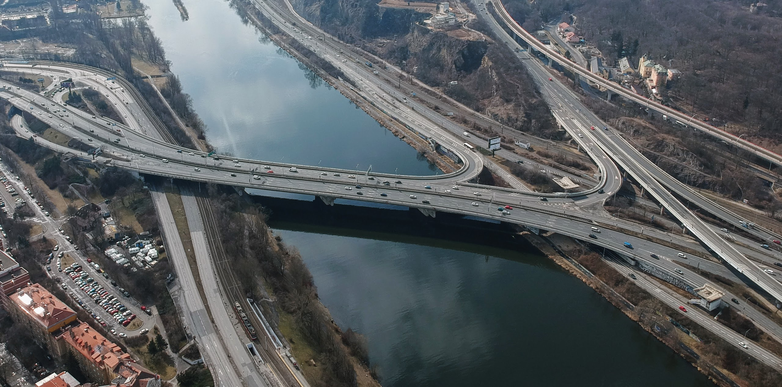 Barrandov bridge, drone